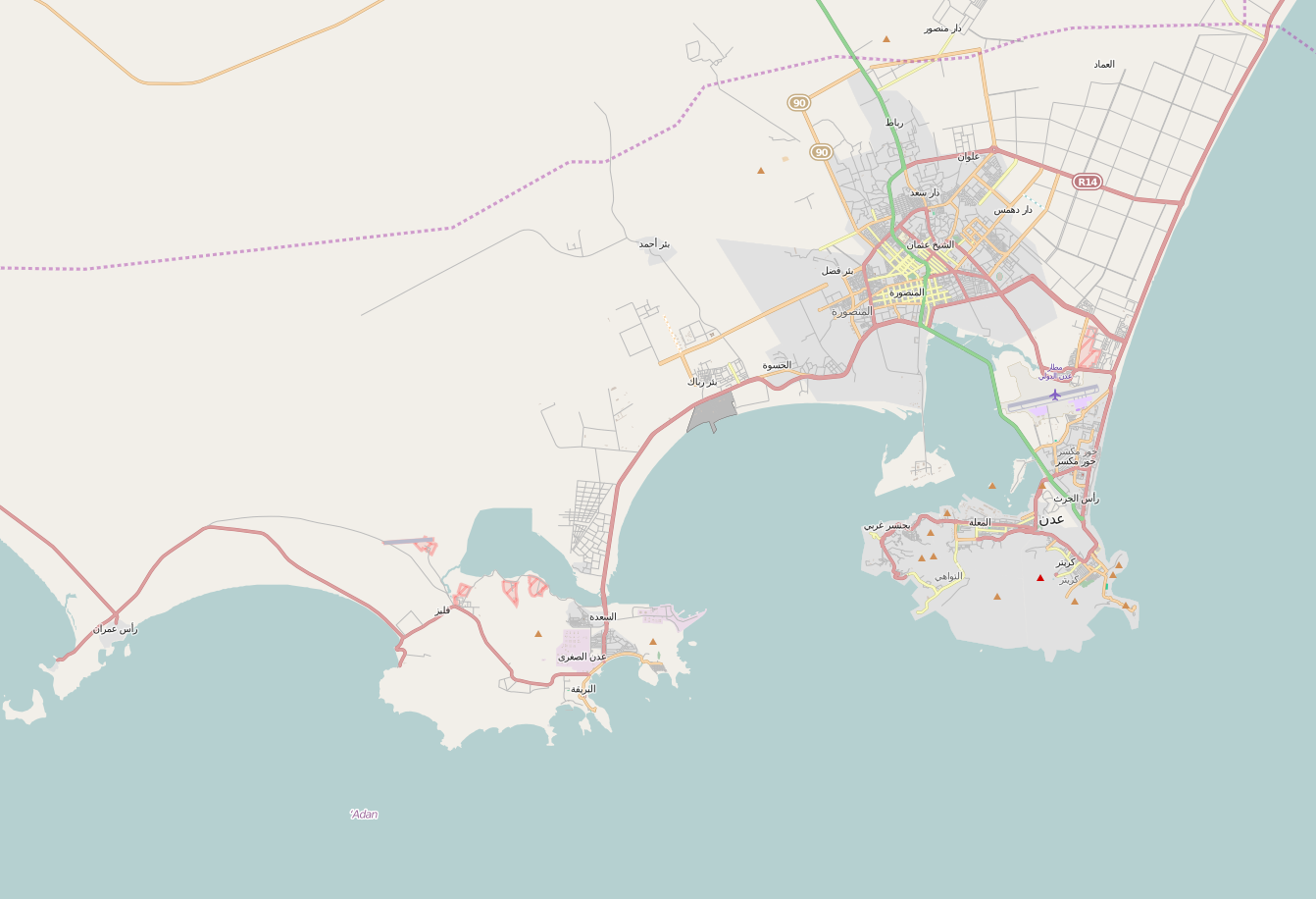 Map of Aden — in the , Yemen. Geographic limits of the map: N: 12.9484° S: 12.6785° W: 44.7047° E: 45.1099°